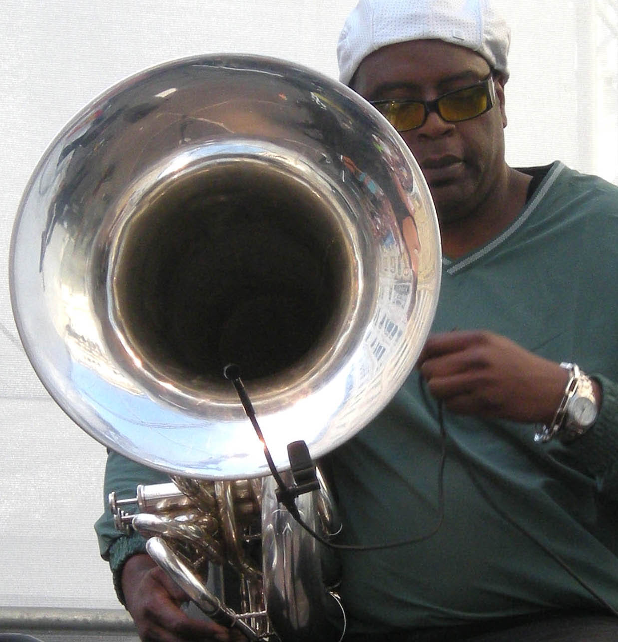 'Jamming Europe' performance at Vienna's annual Stadtfest, 2009 Note: Camera time is set on UTC, which is local time -2.